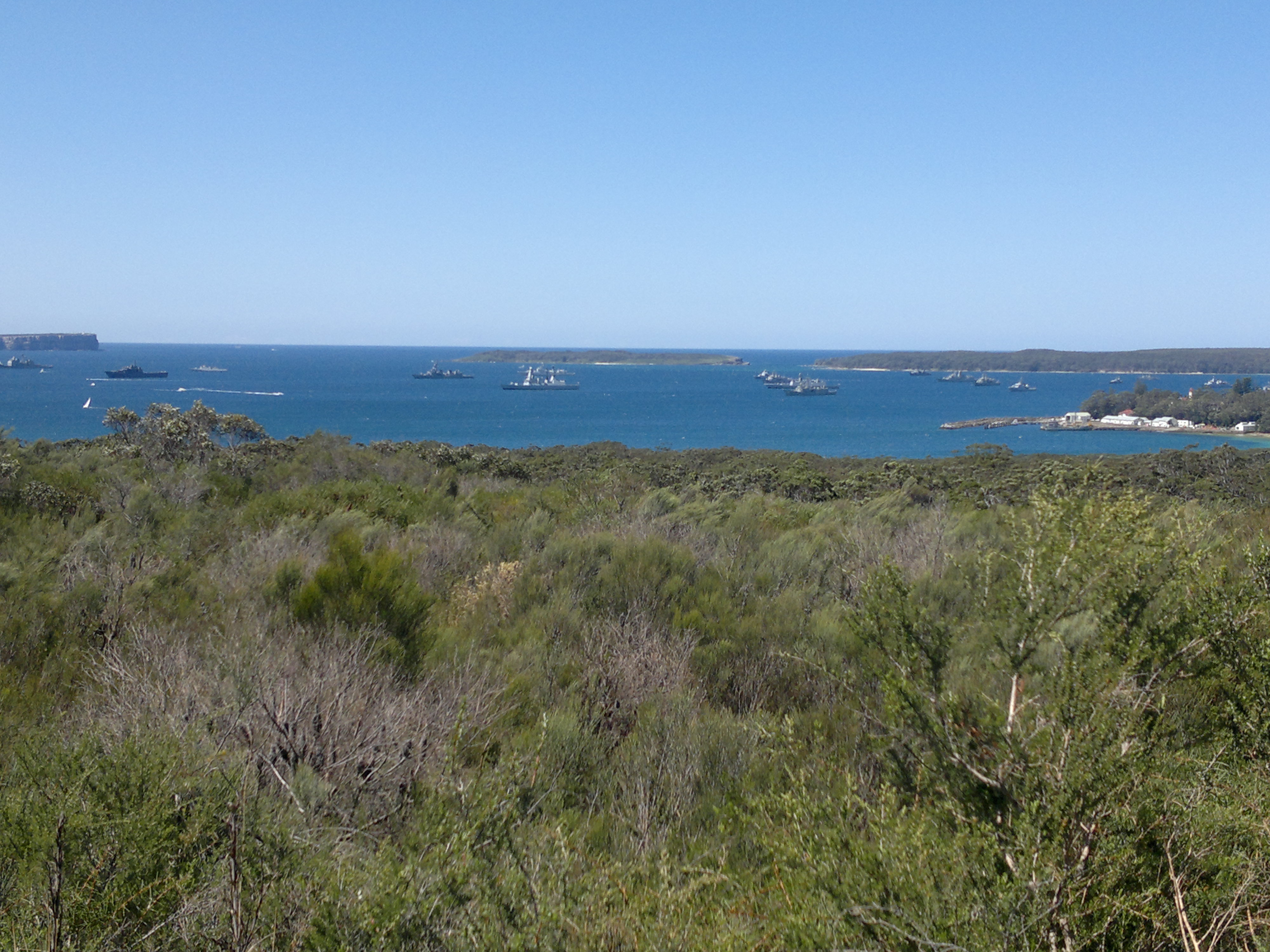 19 ships in Jervis Bay NSW Australia preparing for the Fleet Review